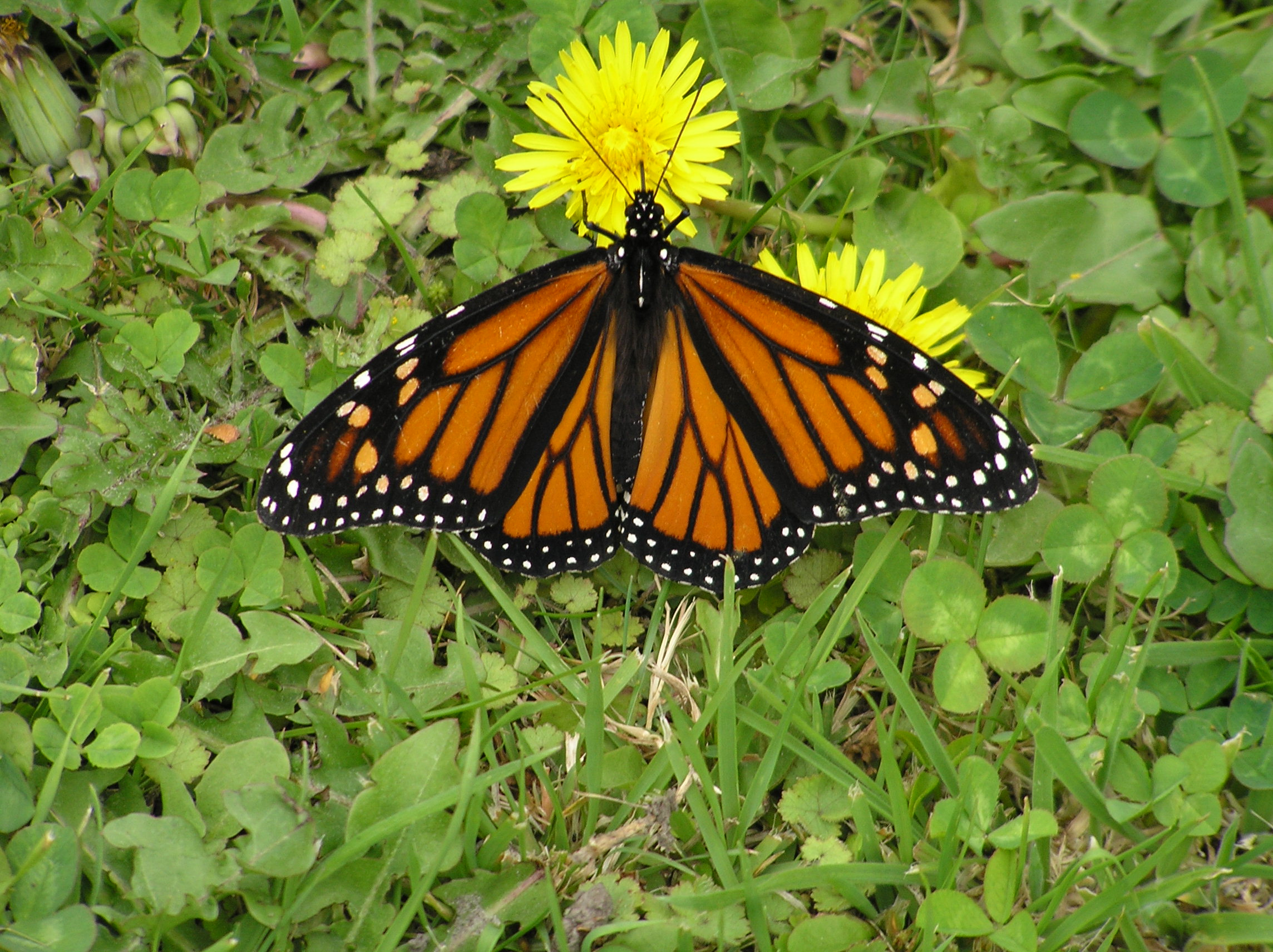 Monarch Butterfly which hatched at my home.